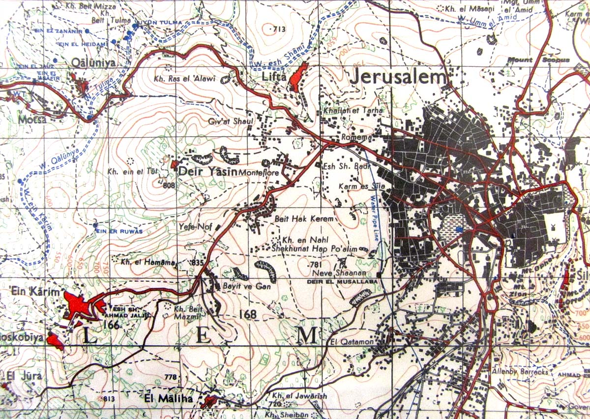 Map of Jerusalem and region to its west, 1943. The grid size is 1km.